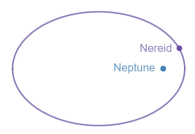 The image shows Nereid's orbit.